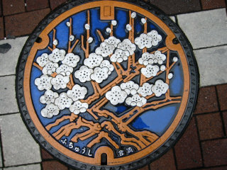 Manhole covers in Japan are a source of pride for the city, district or municipality. They are all made custom designed for beauty, humor, or information.